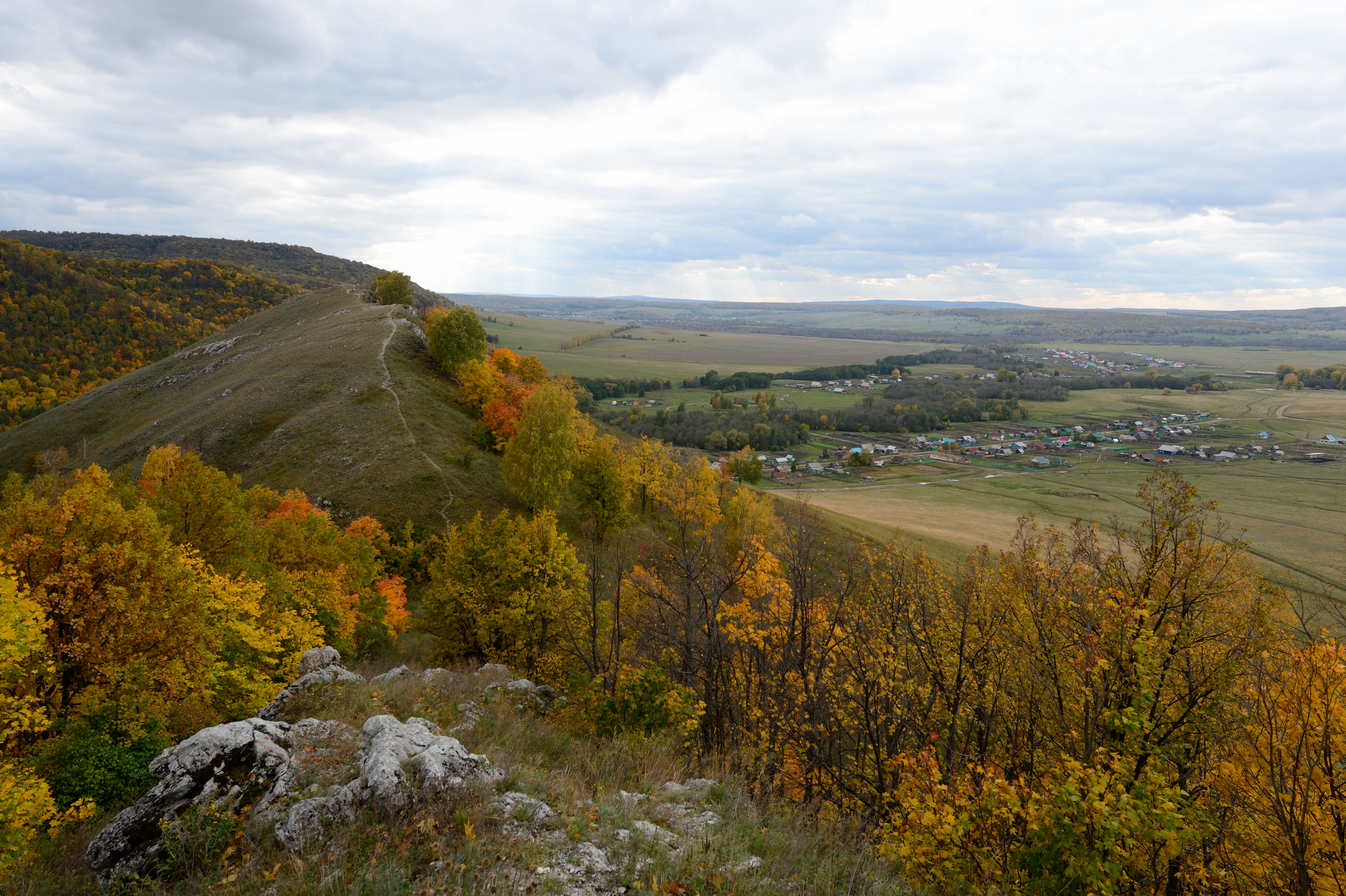 Gazinivo